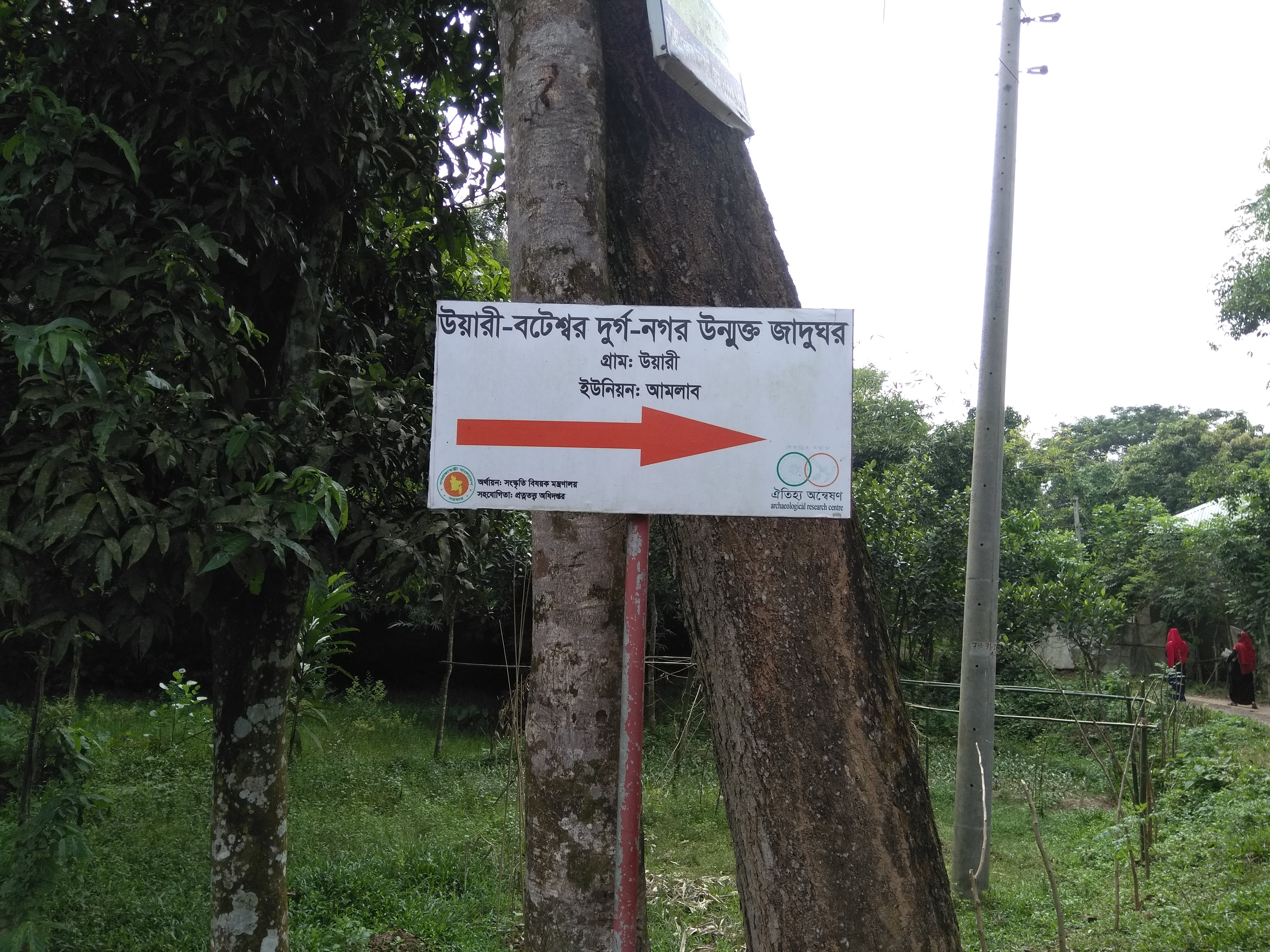 Wari-Bateswar Open Air Museum